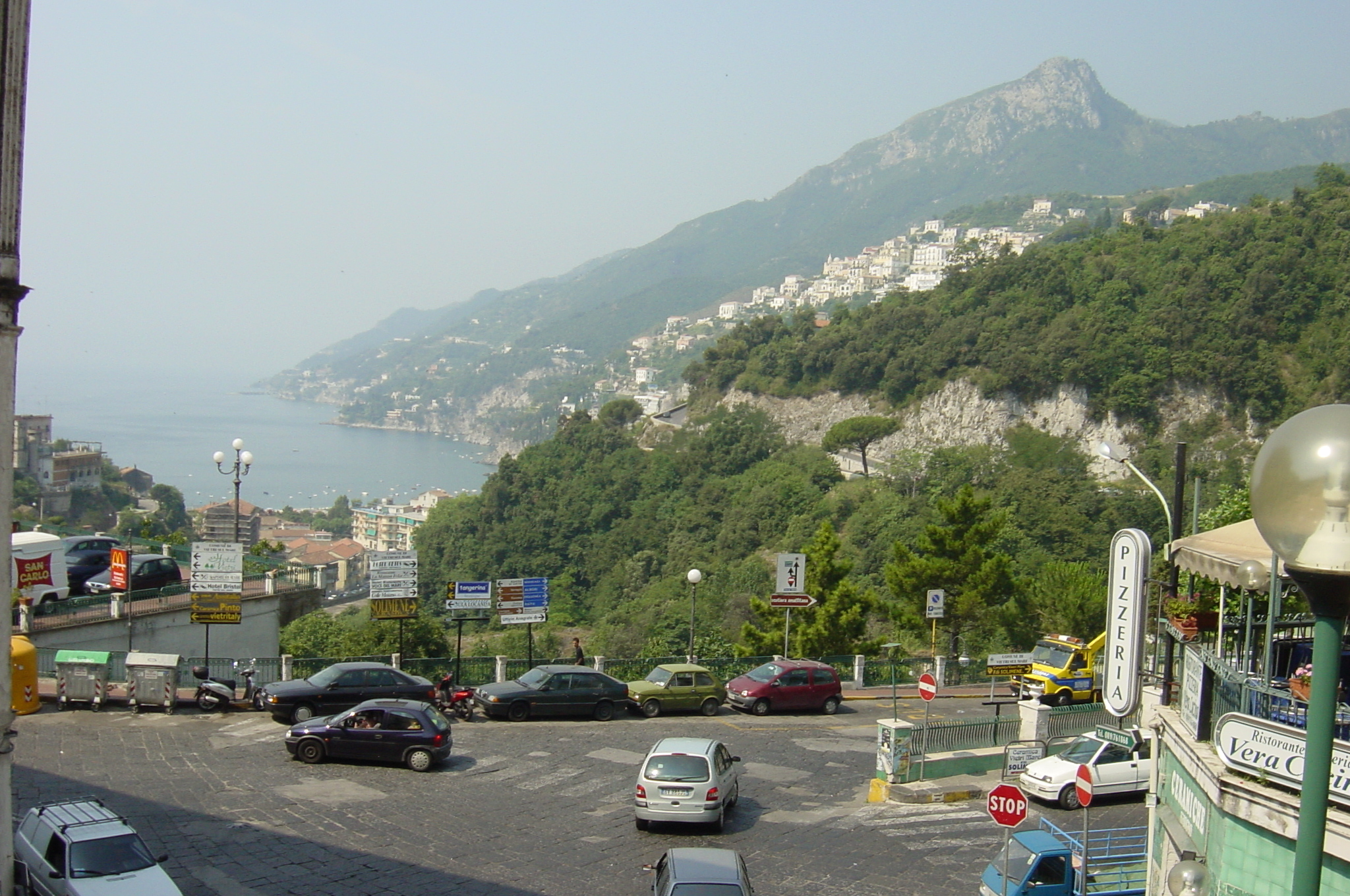 I took this photo in June 2001.